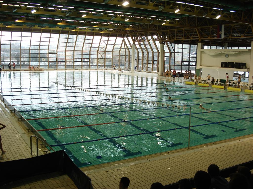 Swimming pool of the Spens in Novi Sad(Serbia)